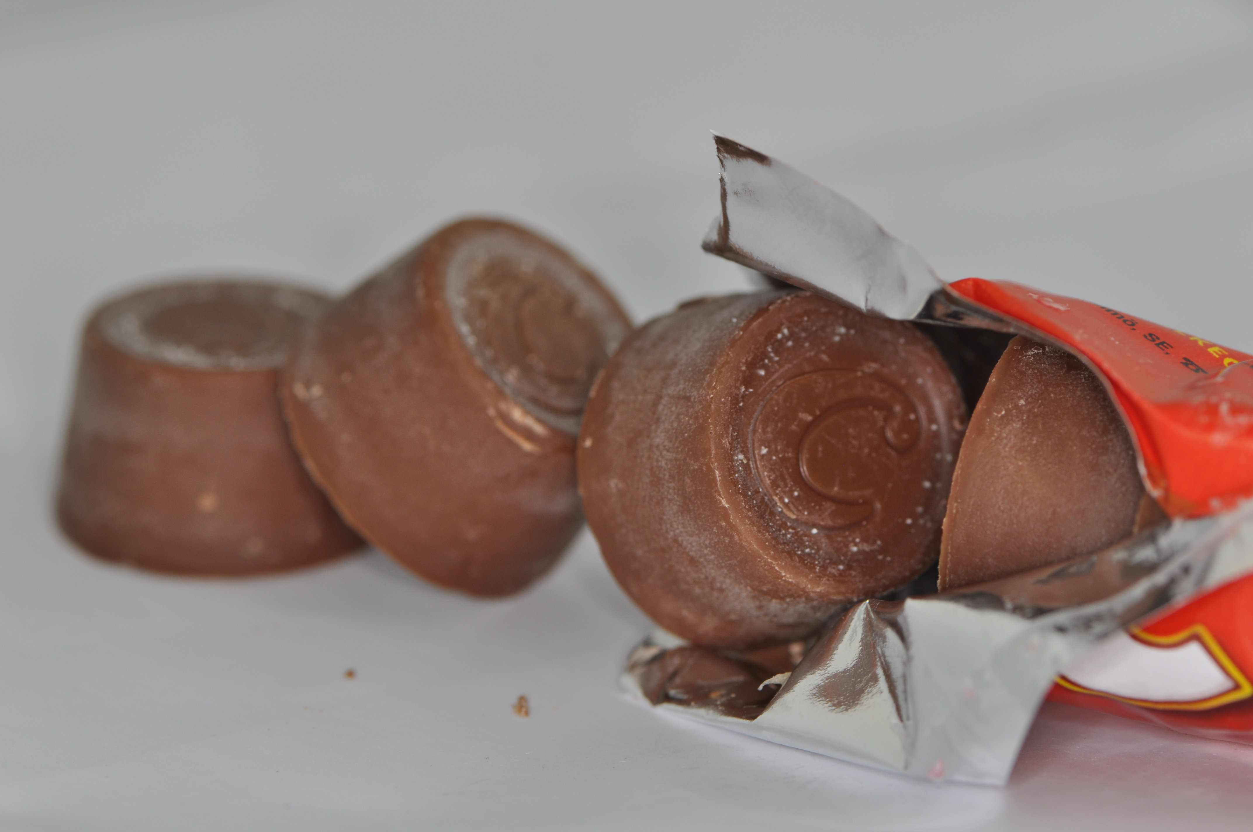 "Center", a toffee filled chocolate from Cloetta.